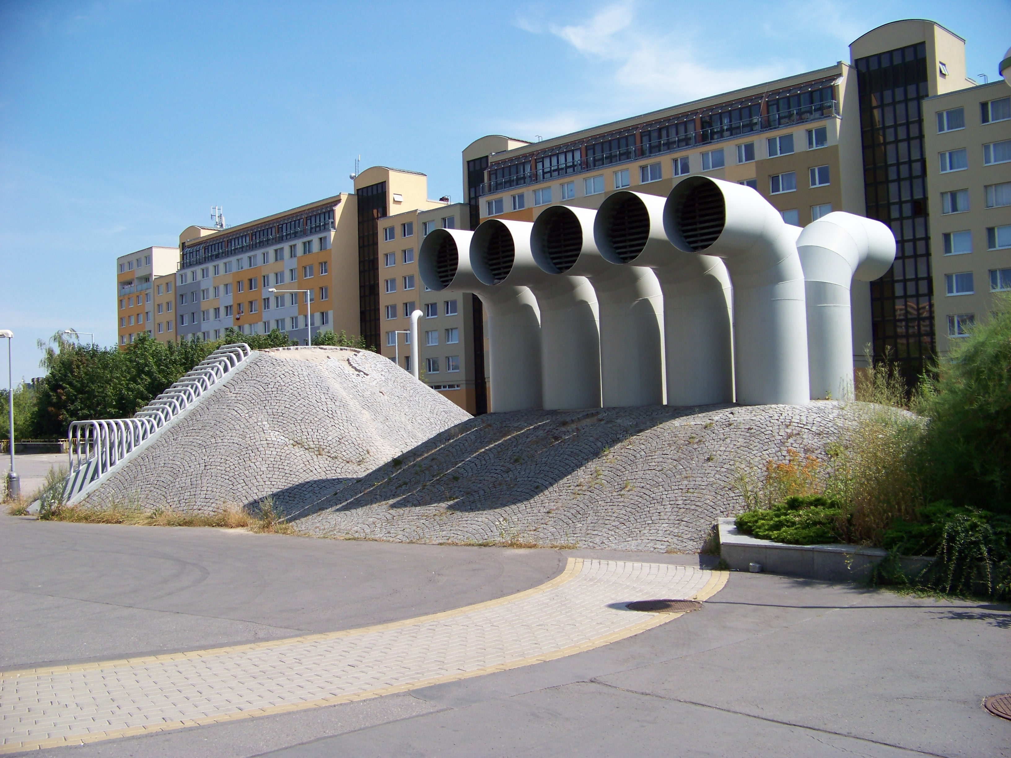 Prague-Stodůlky. Sluneční náměstí, ventilation towers of the metro. - OpenStreetMap(Info)